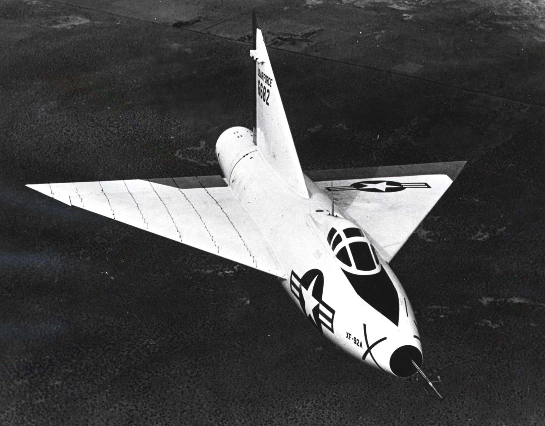 Convair XF-92A in flight with bare metal scheme.